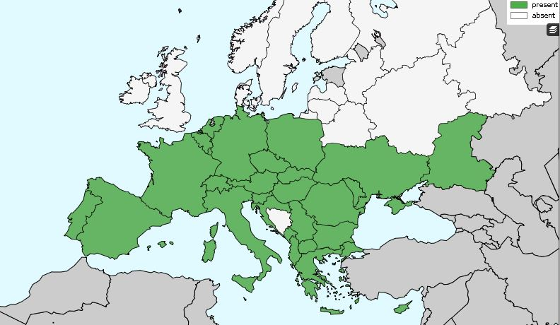 Rasprostranjenje vrste u Evropi (Fauna Europaea)